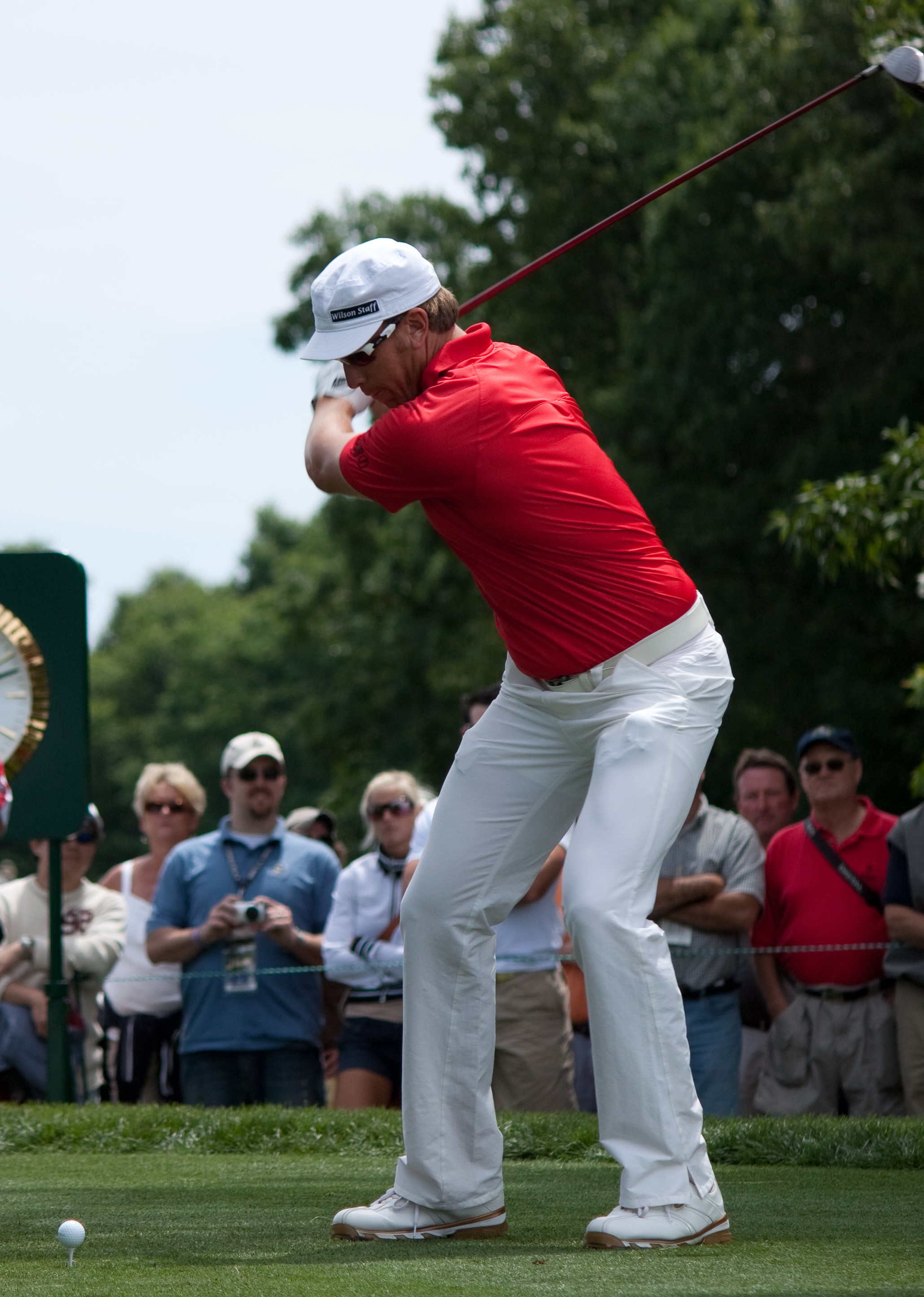 Ricky Barnes at the top of his swing during a drive a the 2009 US Open.